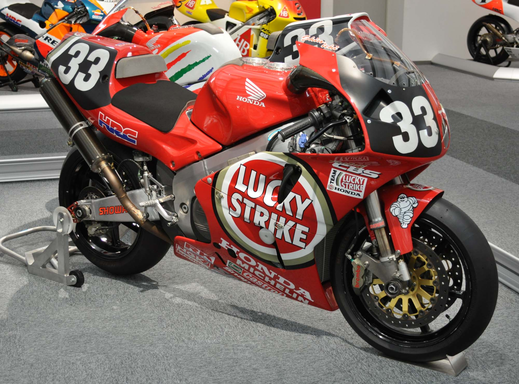 Honda RVF / RC45 (1998 Suzuka 8H, Shinichi Ito / Toru Ukawa)